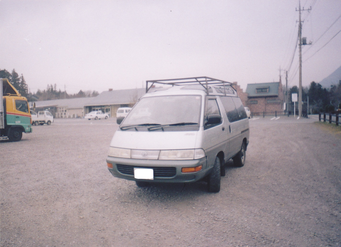 Toyota TownAce (2nd generation)